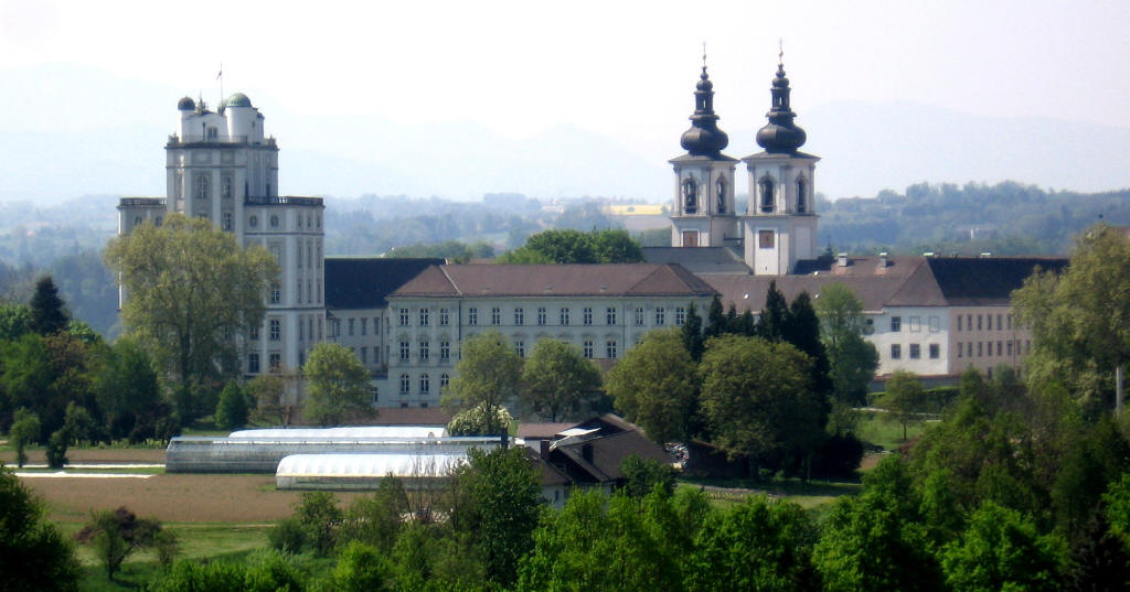 Kremsmünster Abbey, as seen from Northeast. The „Mathematical tower“ with the astronomical observatory is in the foreground at left.